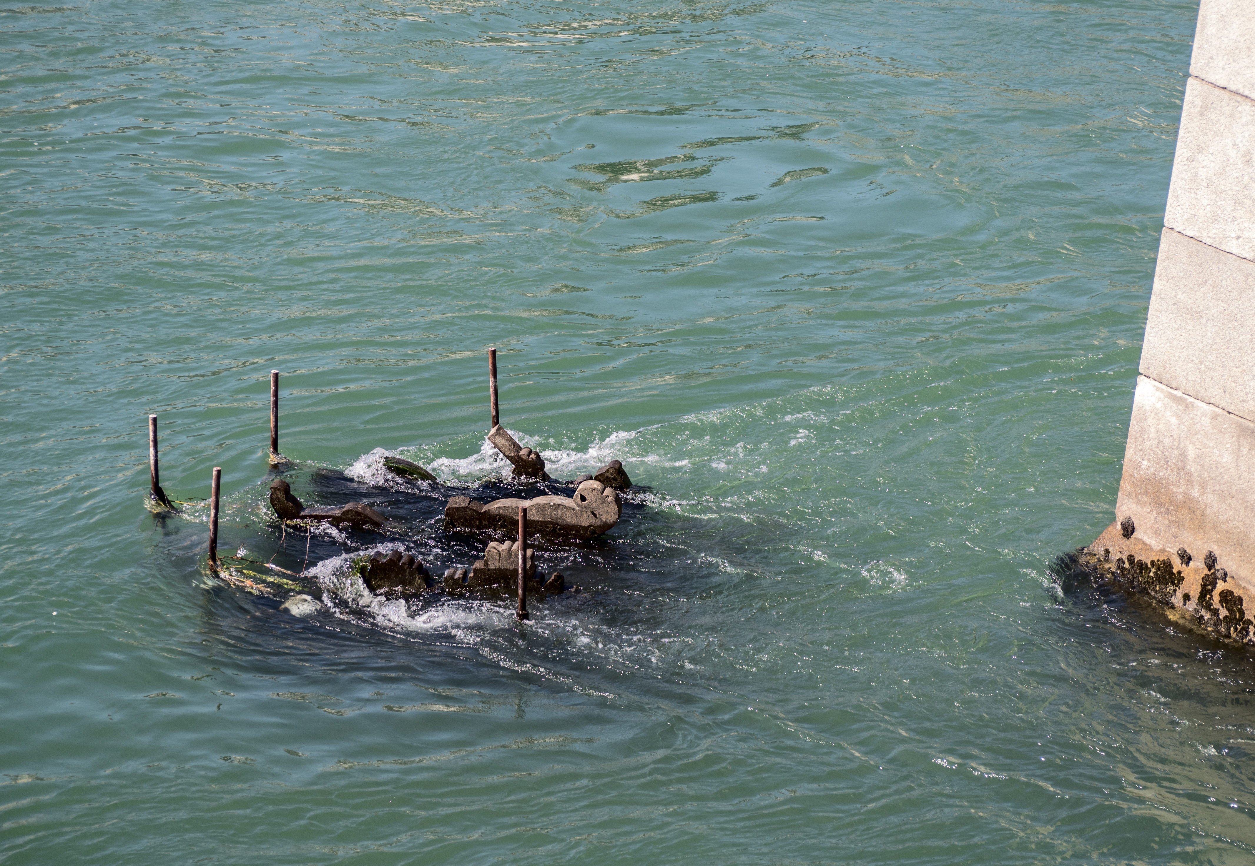 Sculpture "Lagerstätte" by Ludwig Stocker, Mittlere Brücke, Basel, Switzerland. Medium water level (Stream gauge Rheinhalle 586cm).